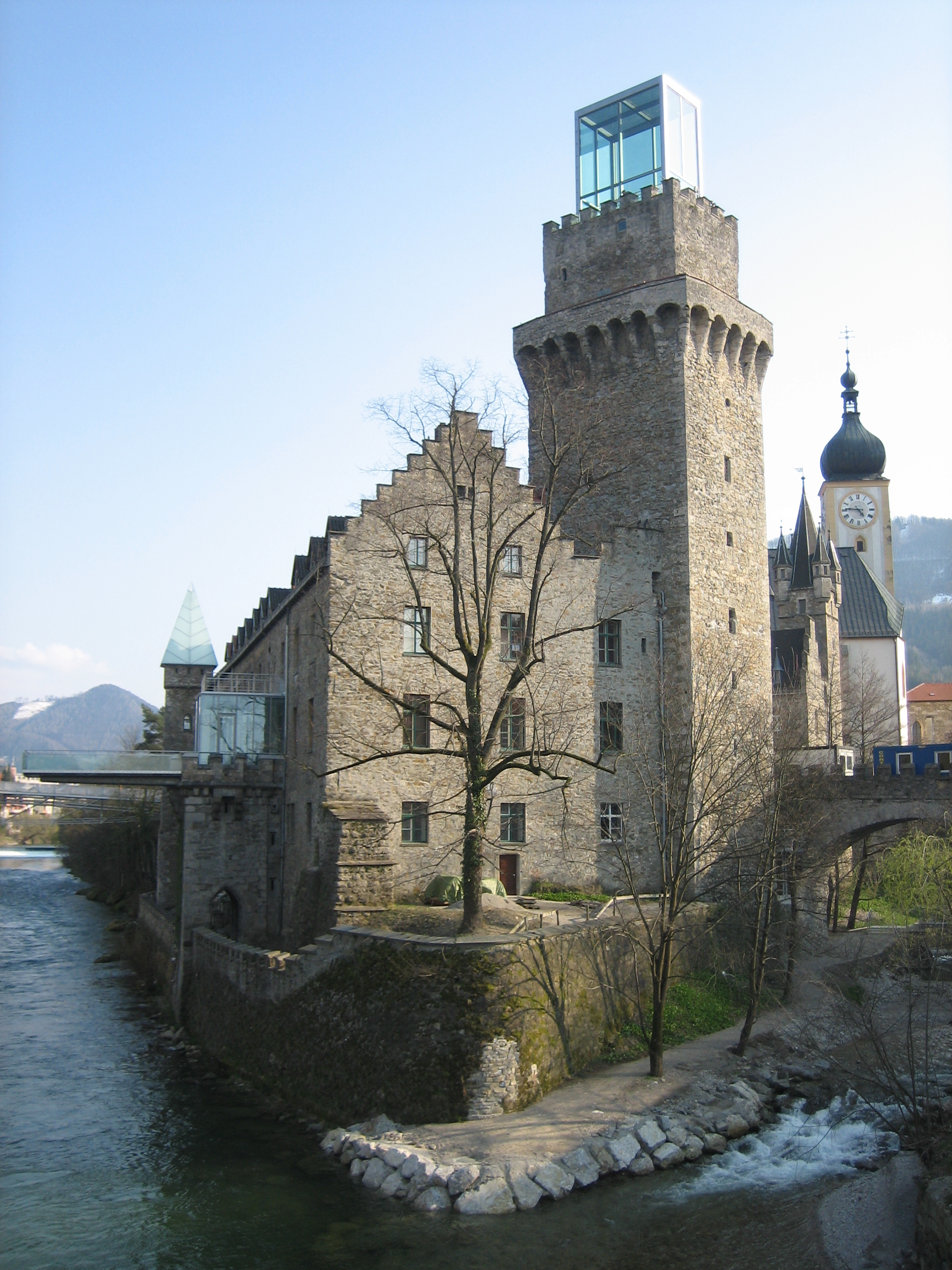 Rothschild-Castle, Waidhofen an der Ybbs, Lower Austria, Austria: Medieval palas and tower, builded approximately between 1380 and 1410. Metal-glass-constructions added on 2006 - 2007.